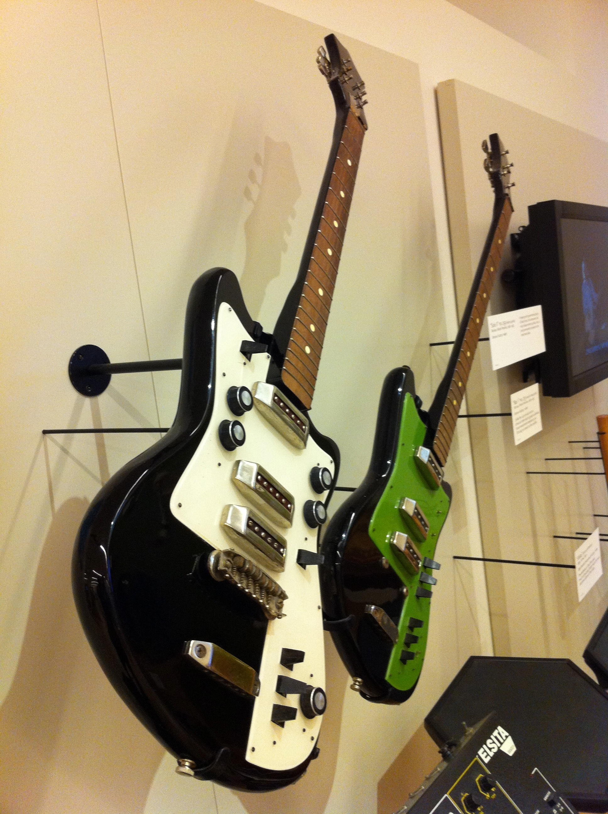 Axes Belorussian factory of musical instruments, Borisov Solo II electric guitar with built-in fuzz & phaser effects Bas I electric bass guitar with built in fuzz effect bottom right: RMIF ELSITA electronic drum